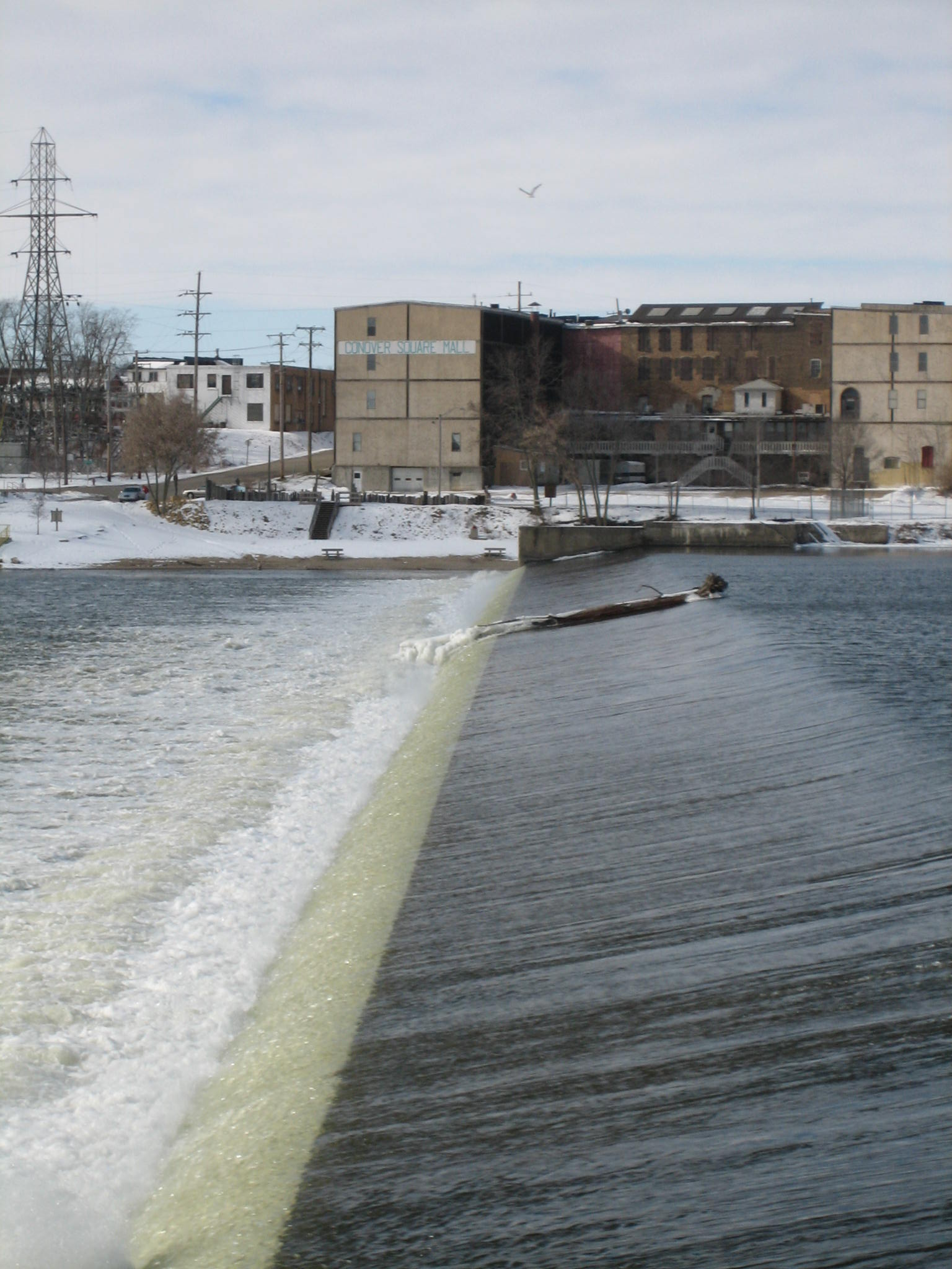 Rock River, Oregon, Illinois.